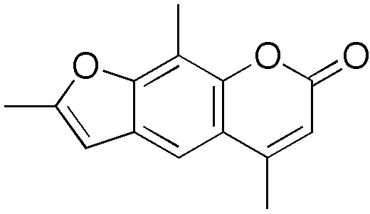 chemical structure of trioxsalen